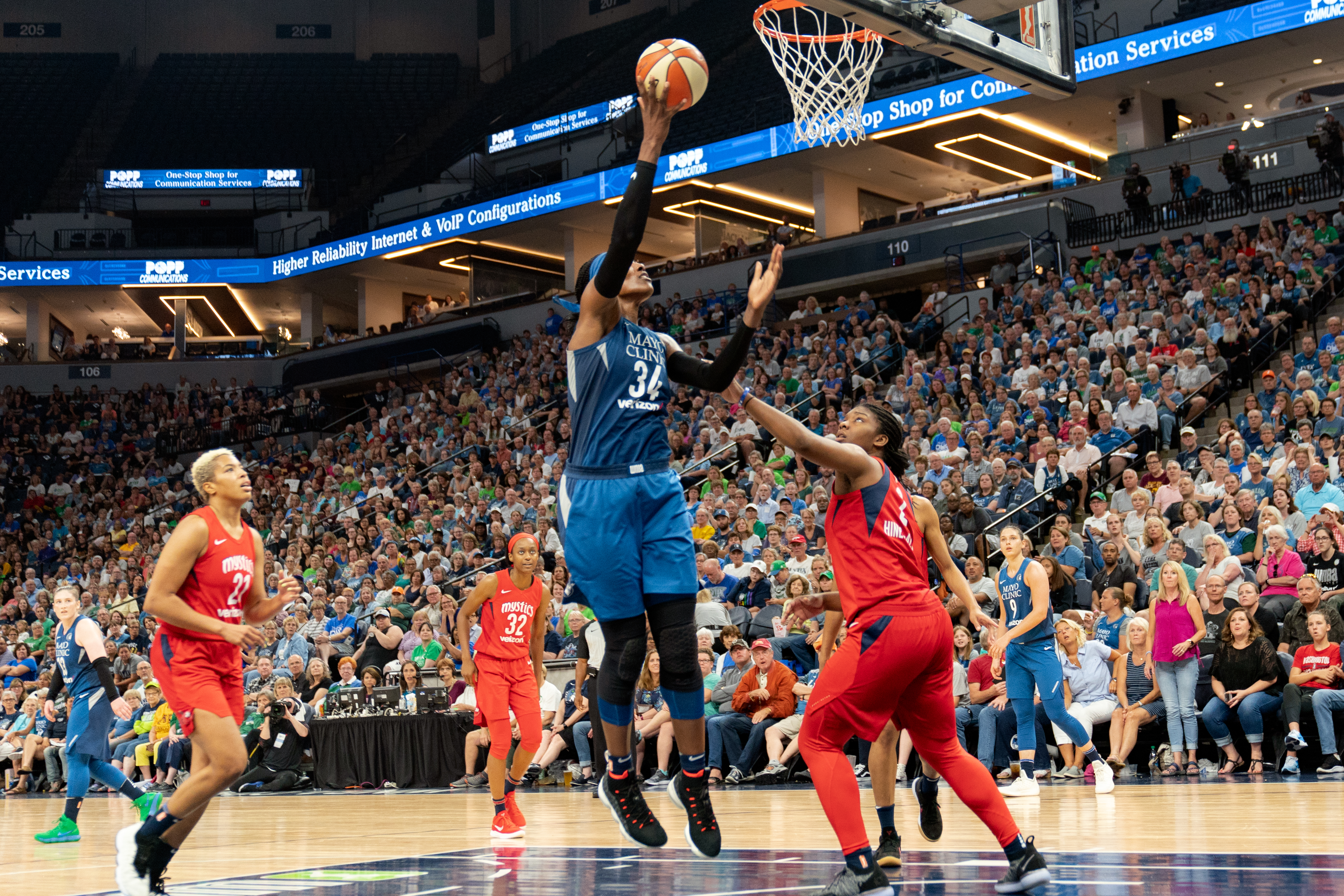 Sylvia Fowles (34) puts the ball up as she's guarded by Myisha HInes-Allen (2). The game was on Sunday August 19, 2018 at Target Center in Minneapolis, MN, the Minnesota Lynx beat the Washington Mystics 88-83